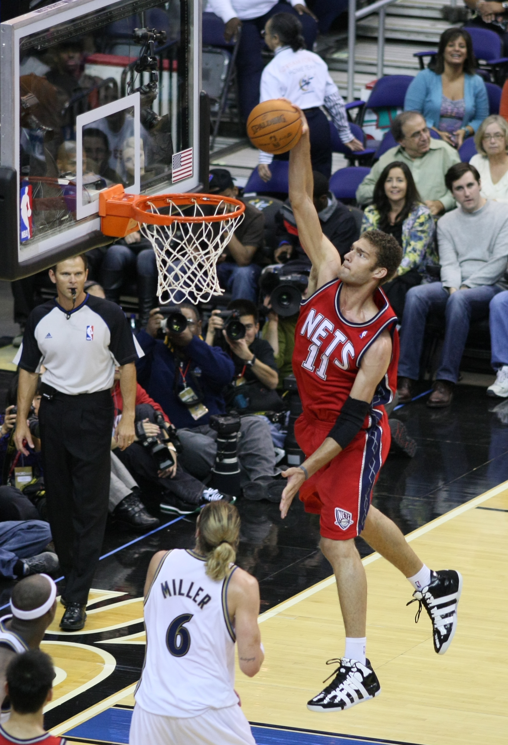 Brook Lopez playing with the New Jersey Nets